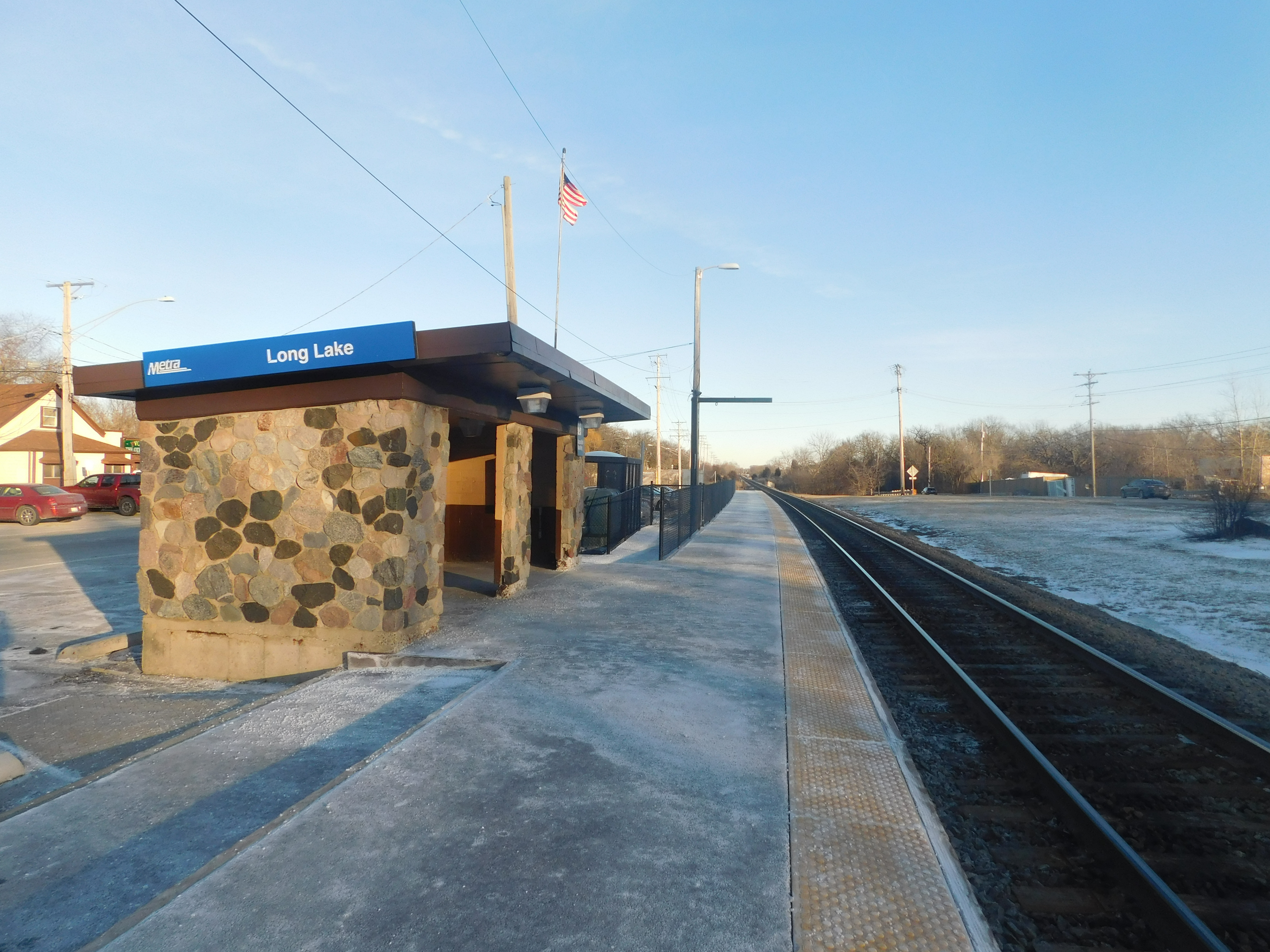 Long Lake station in Long Lake, Illinois